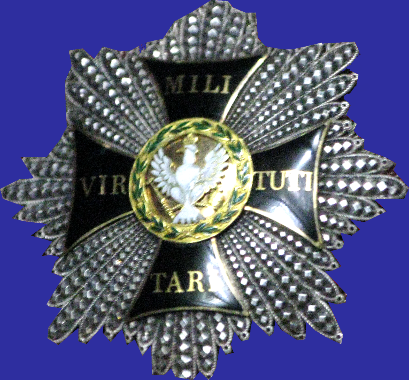 Star of the Grand Cross of Virtuti Militari of Prince Joseph Poniatowski